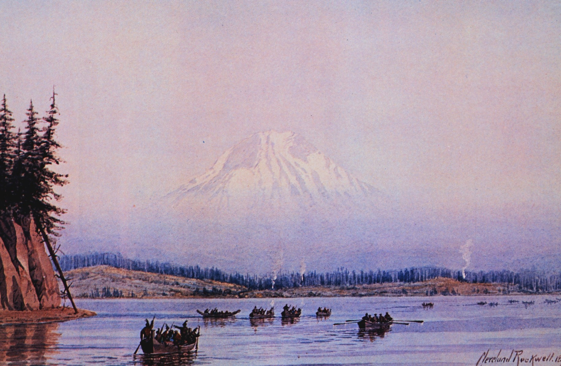 Watercolor painting of "Mount Rainer from the mouth of the Nisqually River" by Cleveland S. Rockwell, a 19th Century landscape artist.